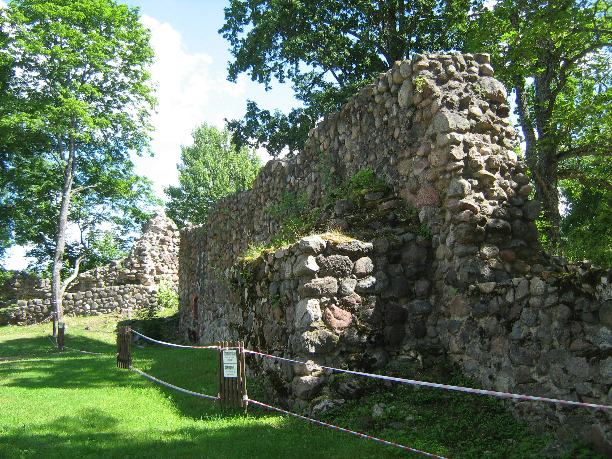 Southern wall of the Alūksne Castle from inside. Remains of the southern tower in the foreground. The walls have been conservated.